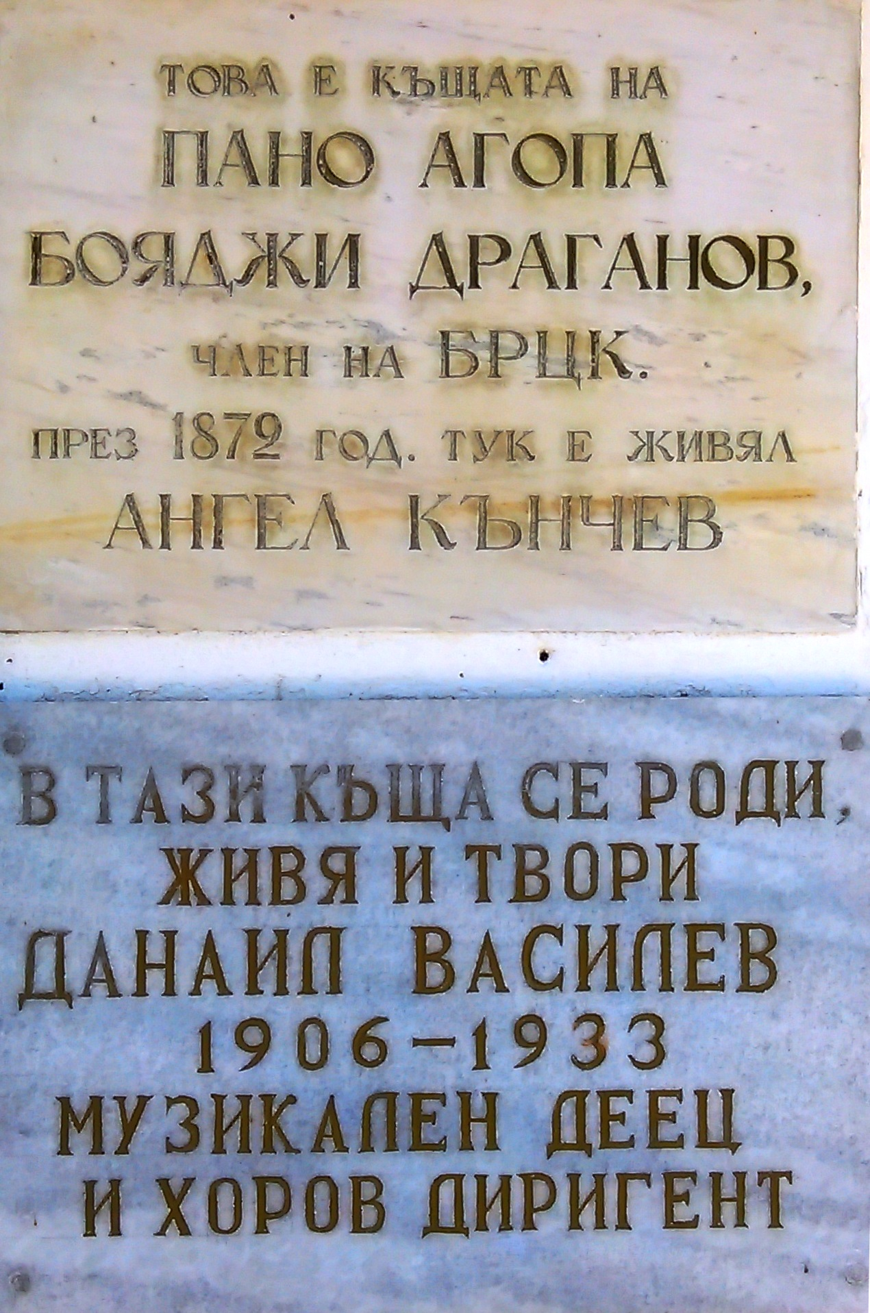 Memorial plaques at Pano Boyadji-Draganov's house in Lovech, Bulgaria